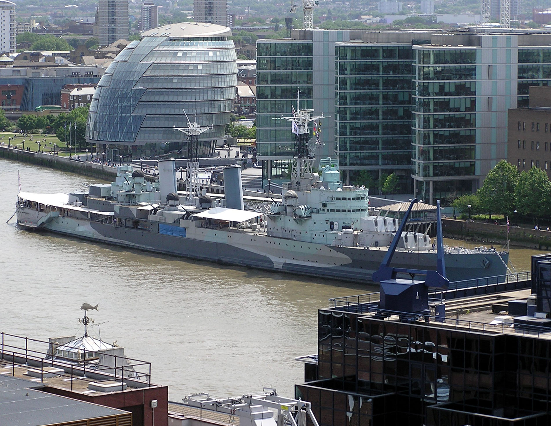 HMS Belfast and City Hall seen from the top of the Great Fire of London Monument.